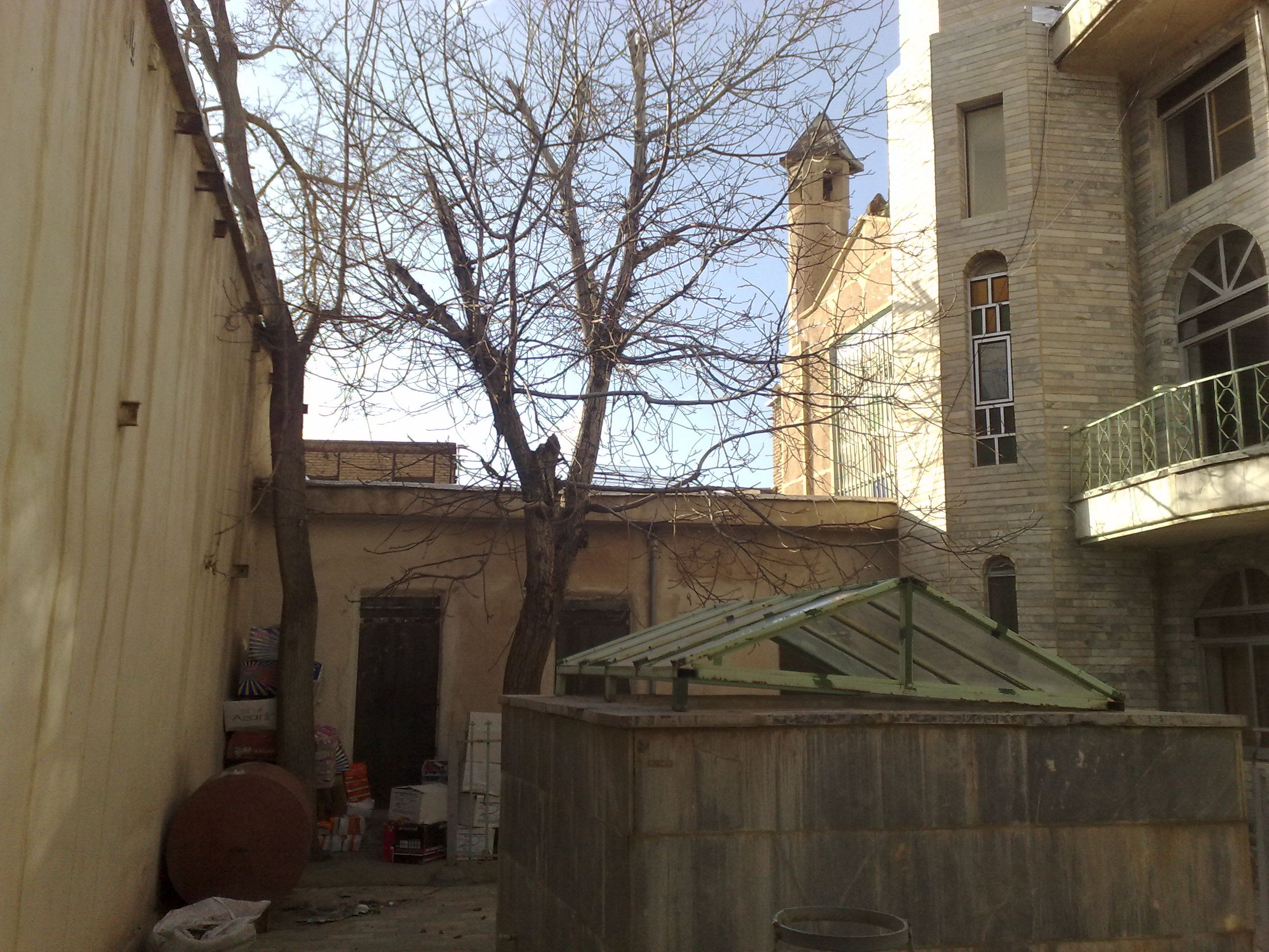 خانقاه نقشبندی در مسجد خانقاه سقز مناره